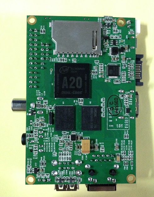 Banana Pi is a single-board computer.